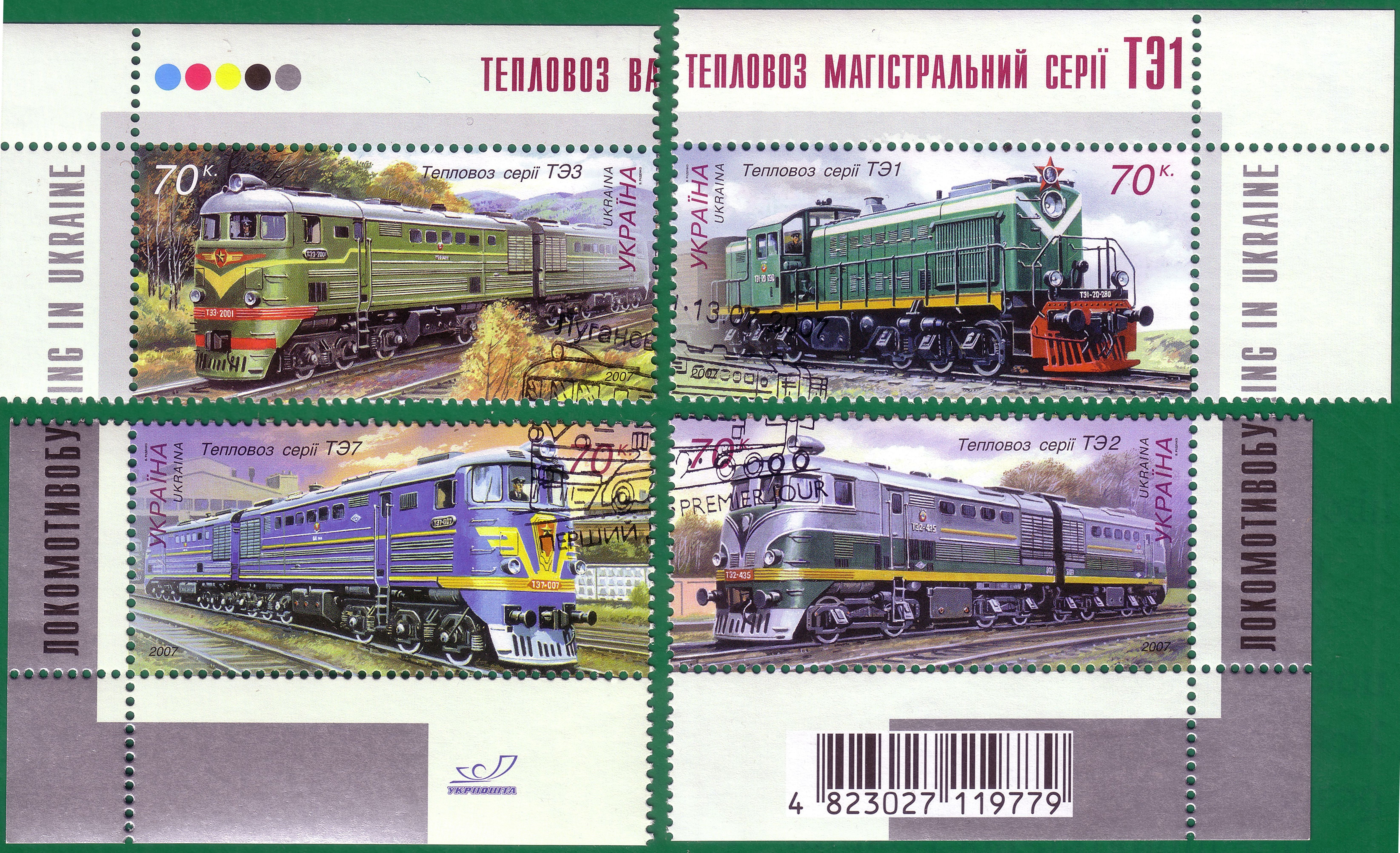 Sheet of stamps. Luganskteplovoz diesel locomotive TE model, first day 4 Ukraine stamps, 2007.